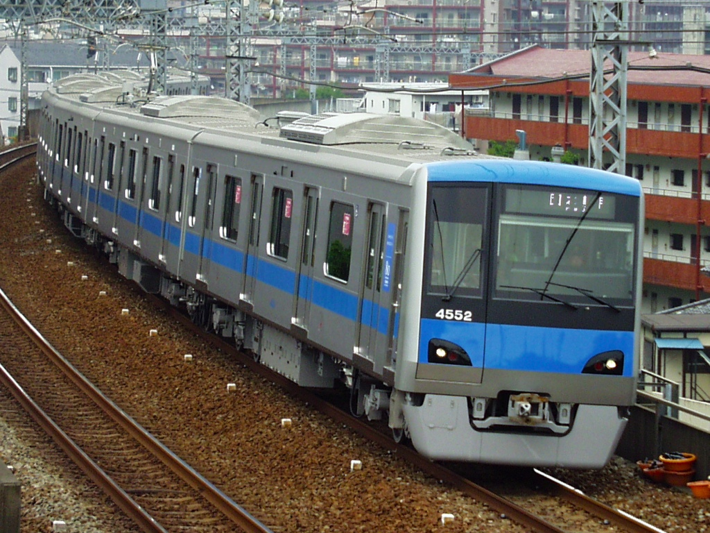 EMU 4000 series on Odakyū Tama Line